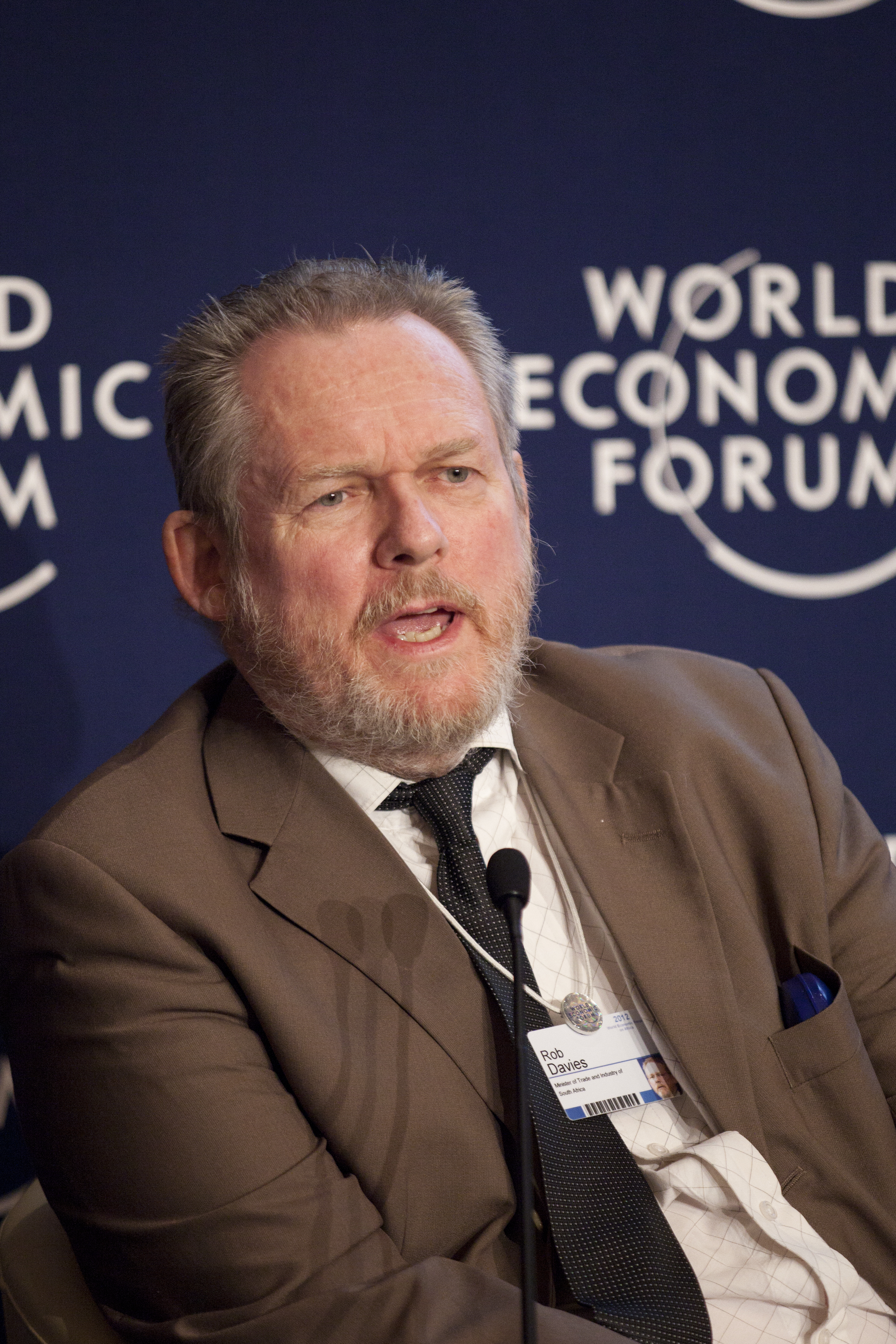 ADDIS ABABA/ETHIOPIA, 09-11 MAY 2012 - Rob Davies, Minister of Trade and Industry of South Africa, captured during the Manufacturing Growth Session at the World Economic Forum on Africa held in Addis Ababa, Ethiopia, 9-11 May, 2012.